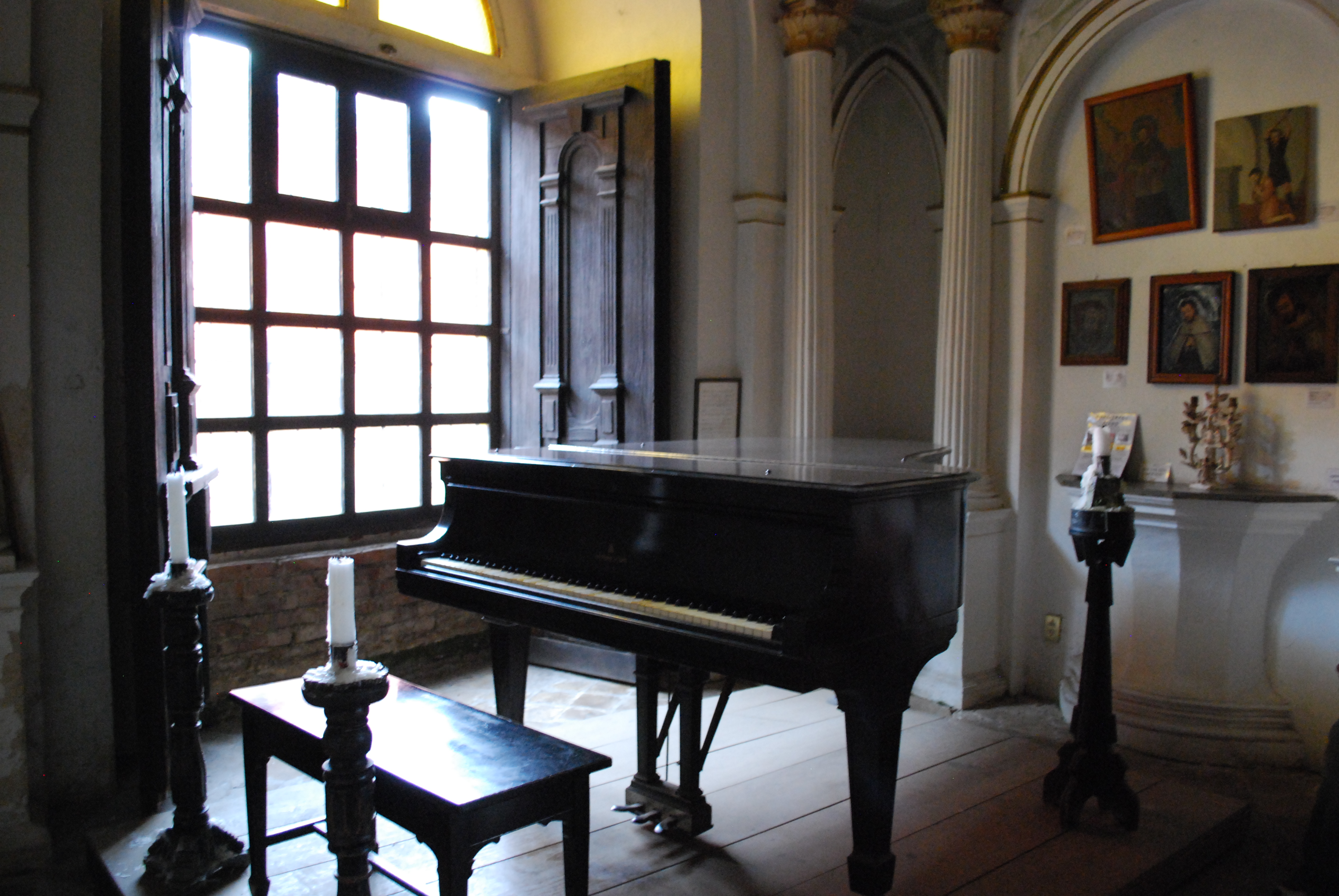 Piano in the old chapel in Casa Na Bolom in San Cristobal de las Casas, Chiapas, Mexico